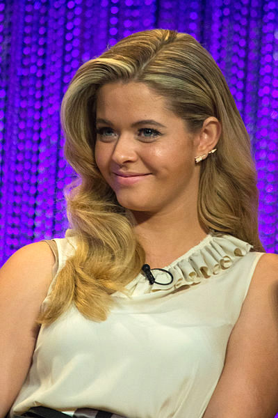 Actress Sasha Pieterse at The Paley Center For Media's PaleyFest 2014 Honoring "Pretty Little Liars"